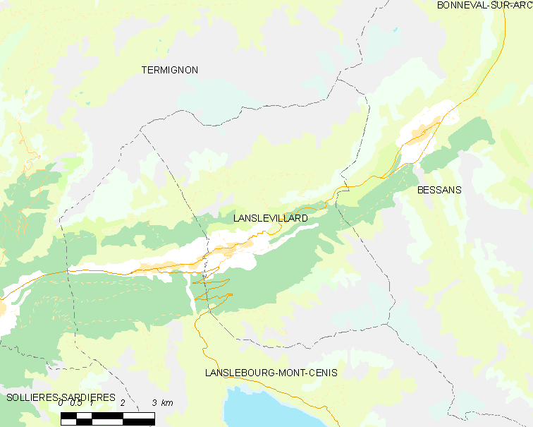 Map of French municipality